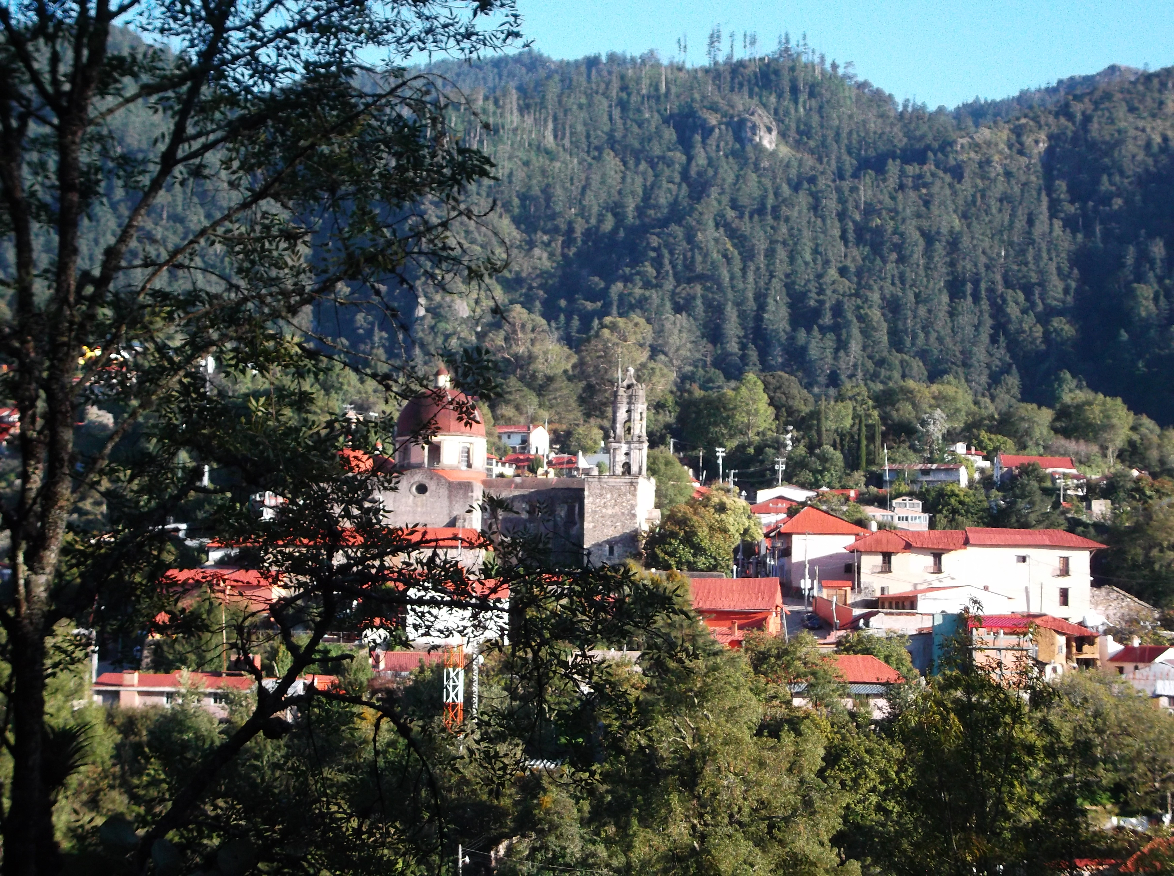 back view from town center